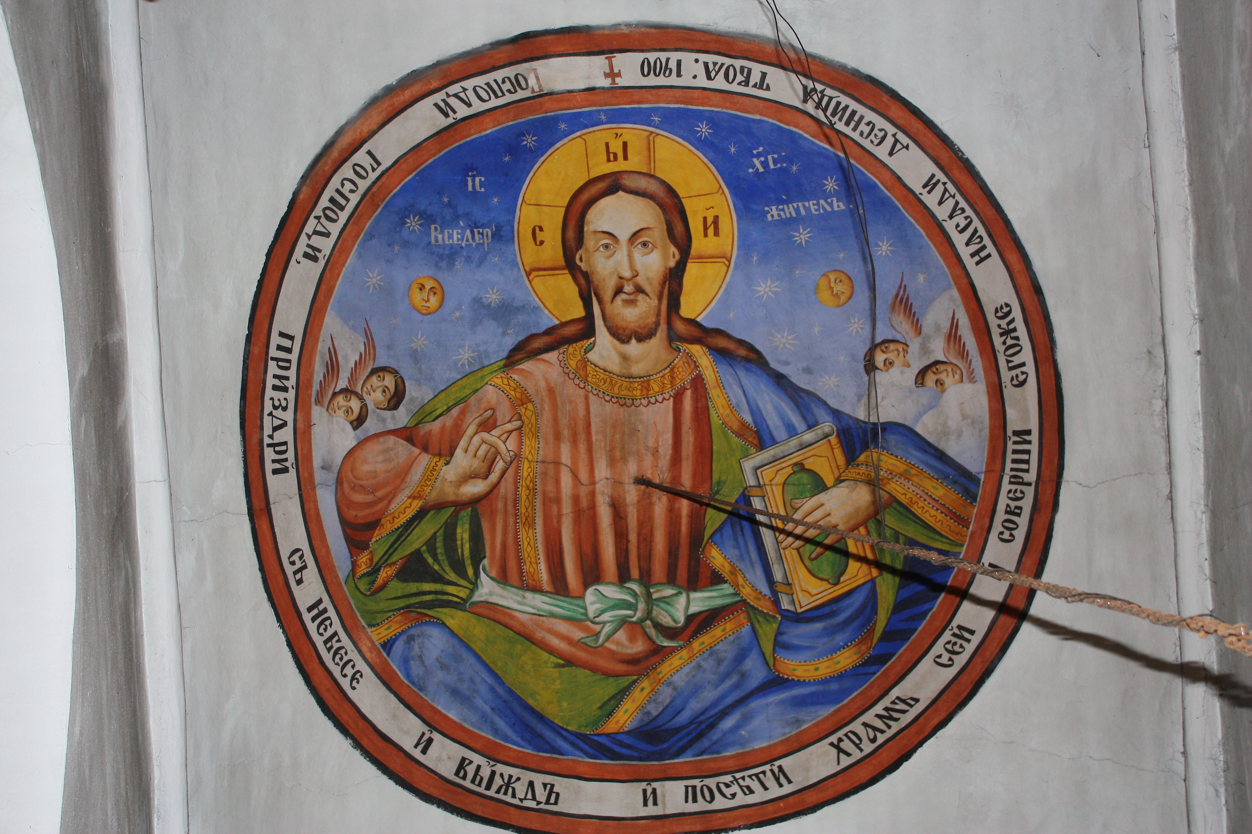 Fresco in Holy Mother of God. The main Catedral and cental parish Church in Makedonski Brod, Macedonia